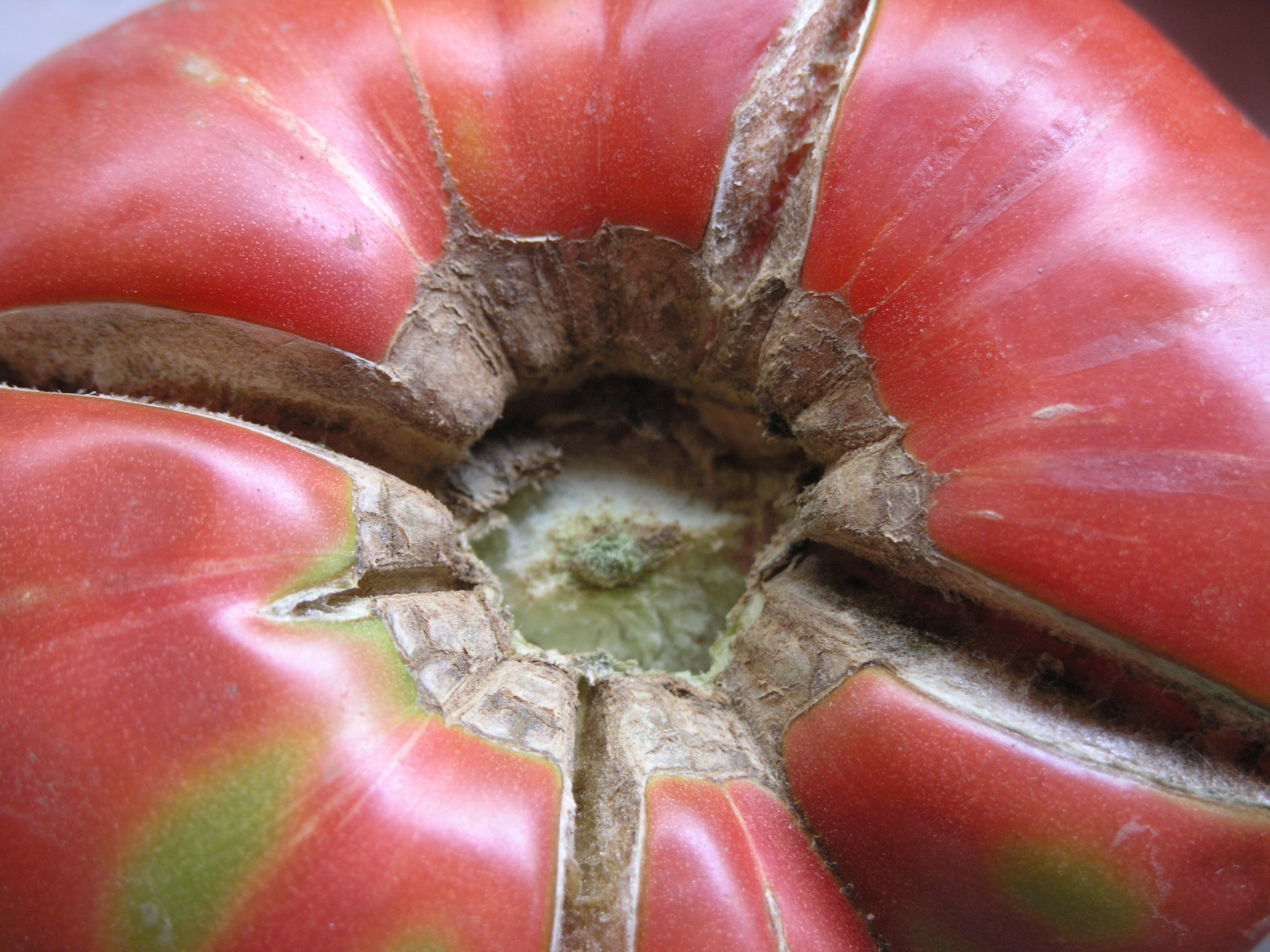 Tomate Pink Brandywine Fruchtplatzer / tomatoe fruit cracking